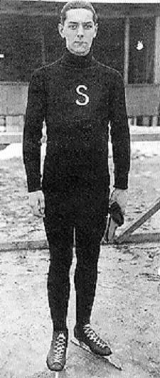 Estonian speed skater Christfried Burmeister in the 1928 Winter Olympics in St. Moritz.